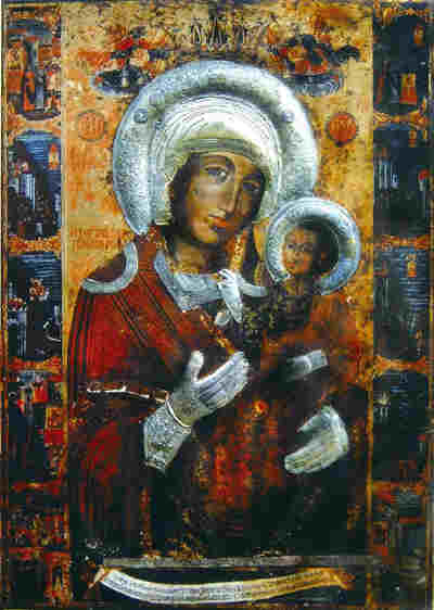 Saint Mary Portaitisa Icon in Rozhen Monastery